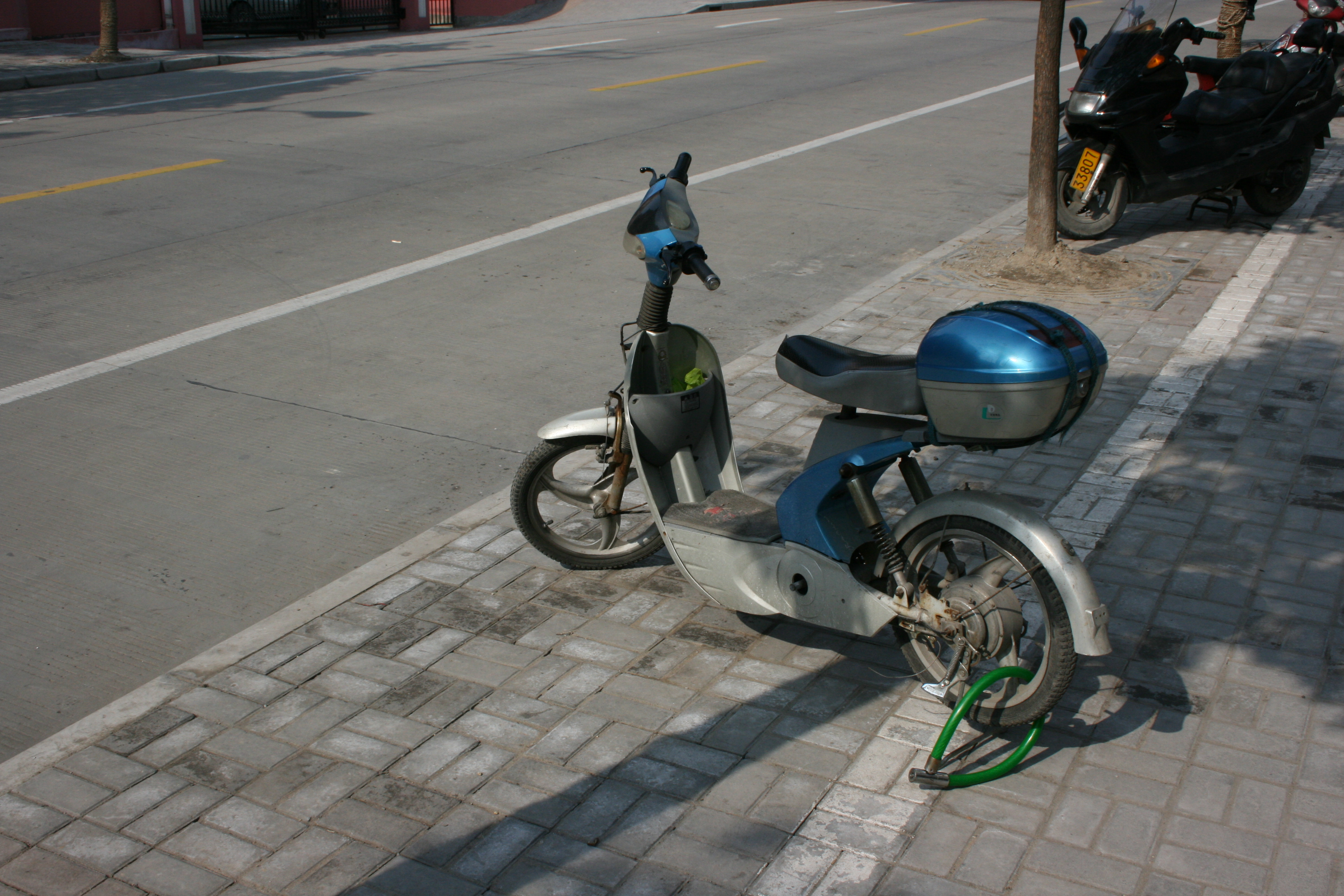 Electric bicycle in Shanghai